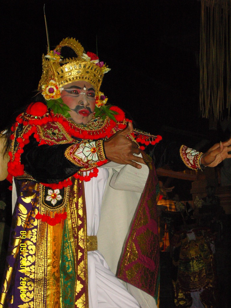 Gamelan Gambuh dancer, Batuan, Bali.